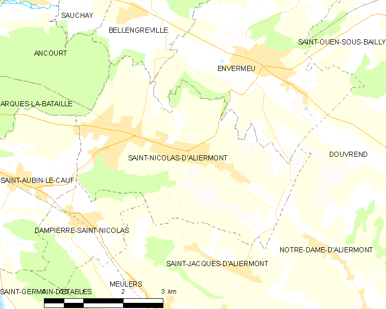 Map of French municipality Saint-Nicolas-d'Aliermont